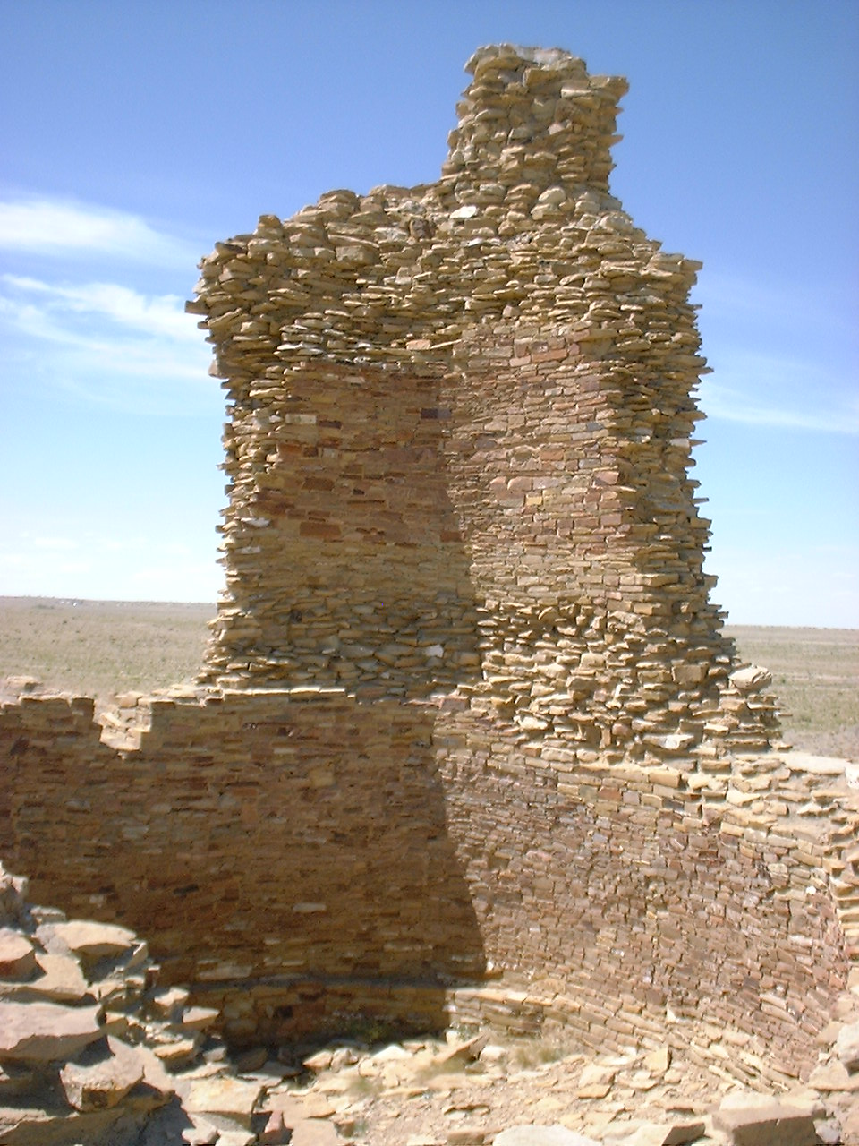 Chaco Canyon culture (New Mexico, U.S.A.), outlier pueblo Kin Ya'a